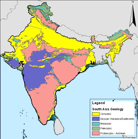 India geology zones